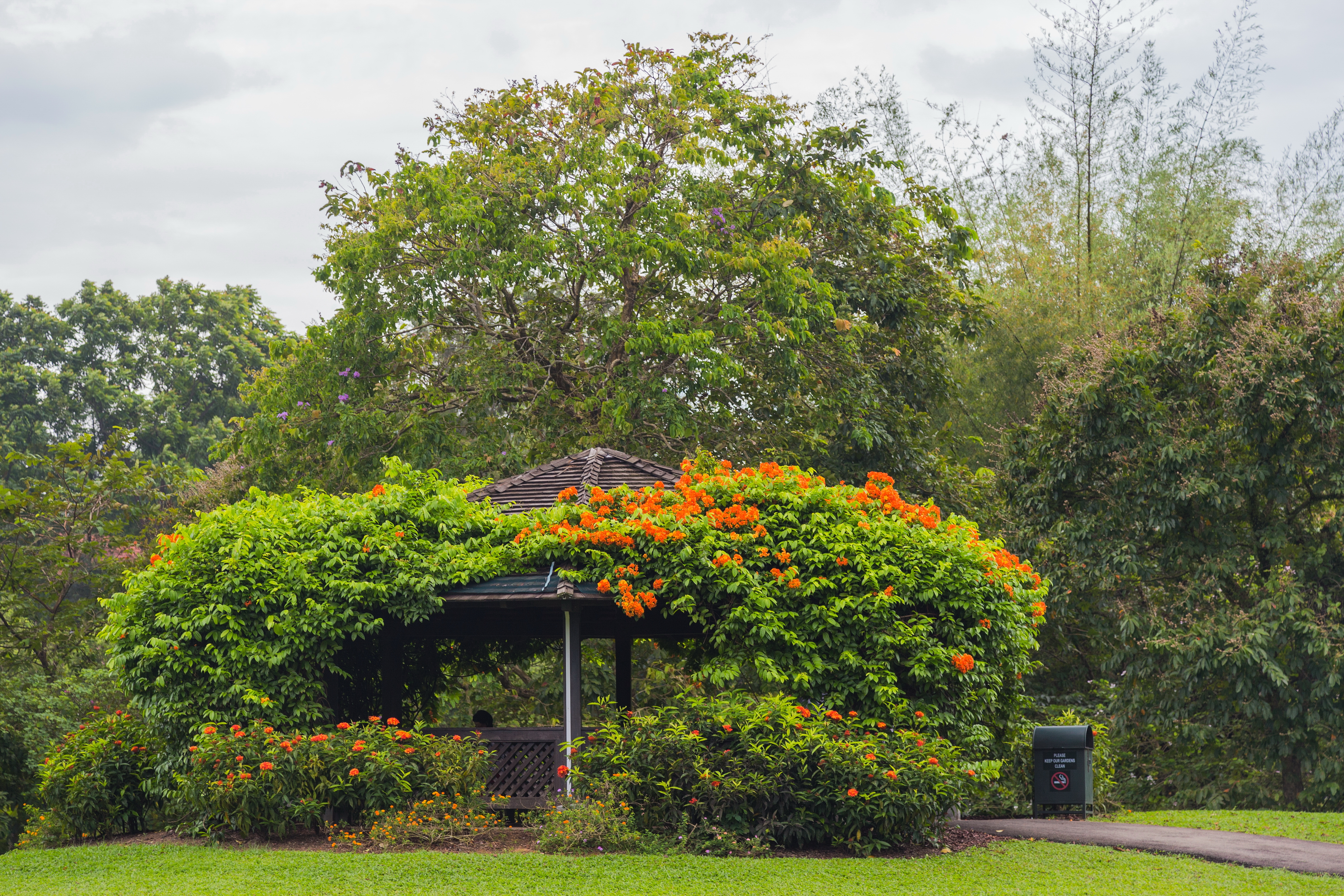 Botanic Gardens. Central Region, Singapore.